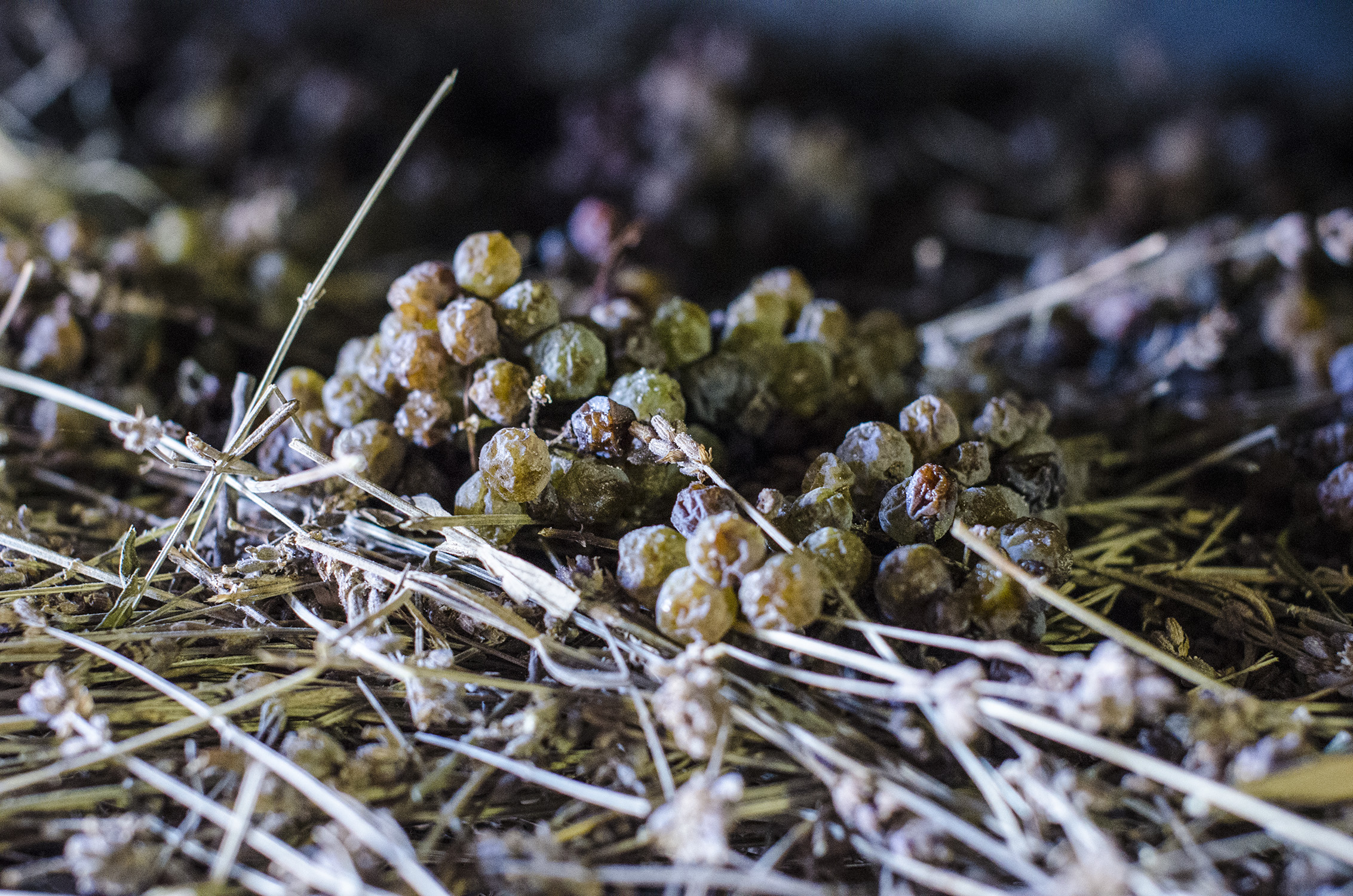 Lavender wine Marcincak, grapes on lavender